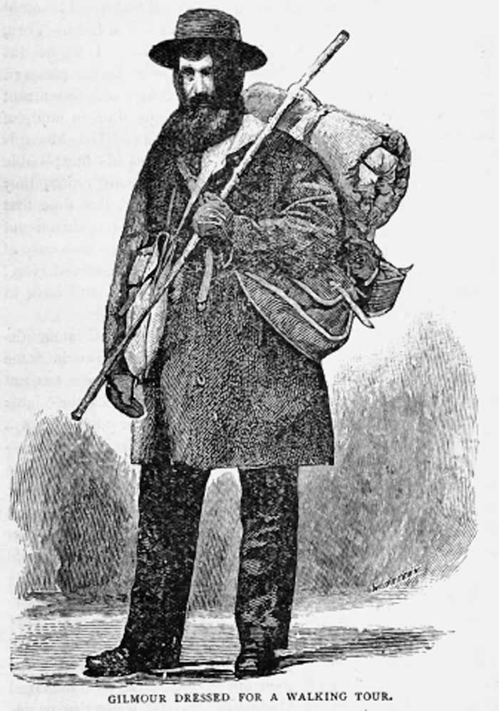 From The Story of The L.M.S. by C. Silvester Horne; London; London Missionary Society; 1904